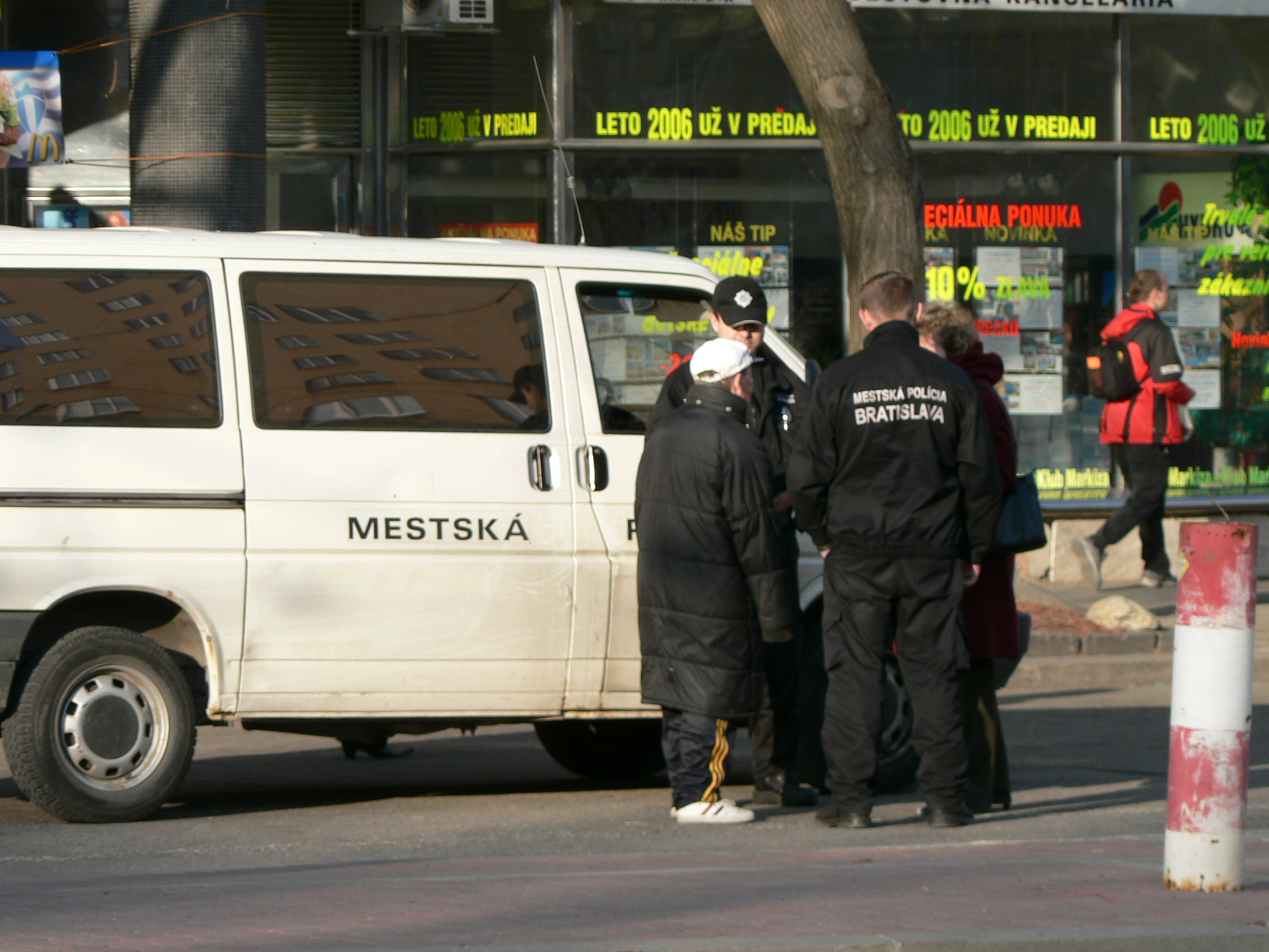 Operation of the City guard of Bratislava against a homeless woman in the Old Town